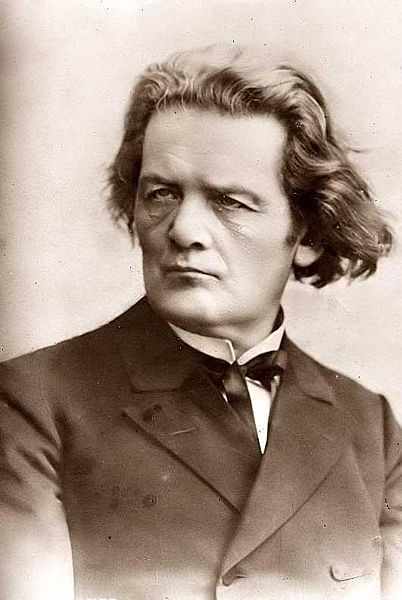 Anton Rubinstein circa 1915